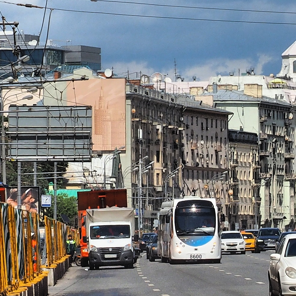 Belkommunmash #VitovtMaxDuo #trolleybus tests in Moscow